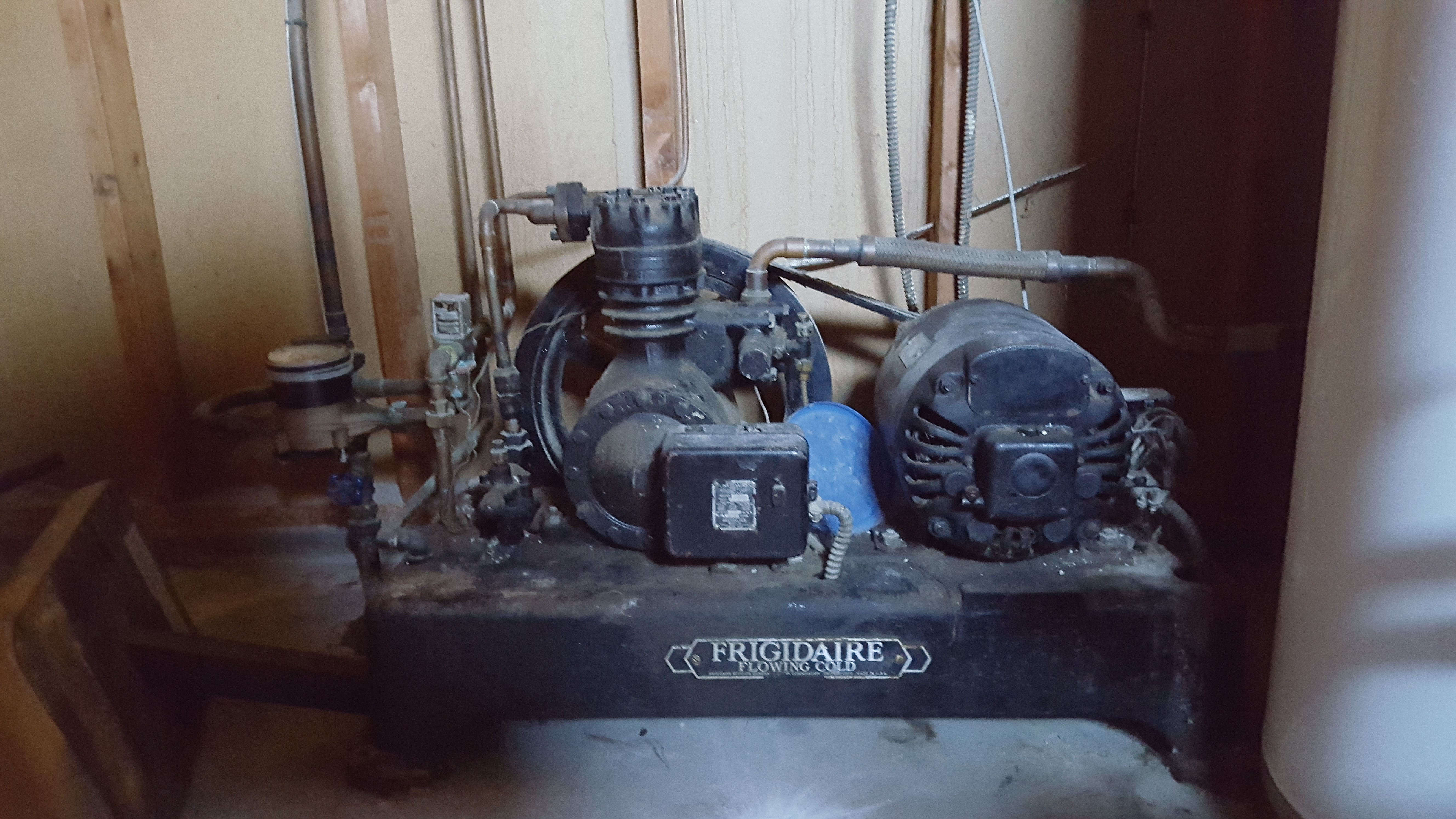 Working AC unit